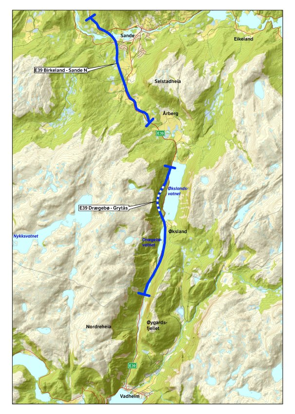 Road construction plan, E39, Gaular district (Sande-Vadheim), 2013.